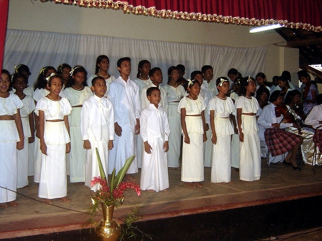 Acceptance Song